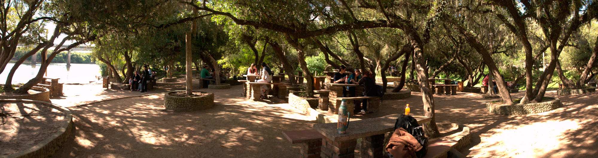 Park along the river Olimar, Treinta y Tres, Uruguay.